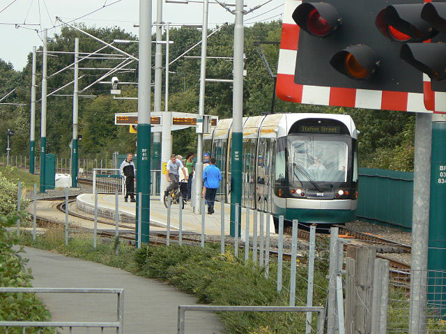 Bulwell Forest tram stop This is located just north of Carey Road level crossing.